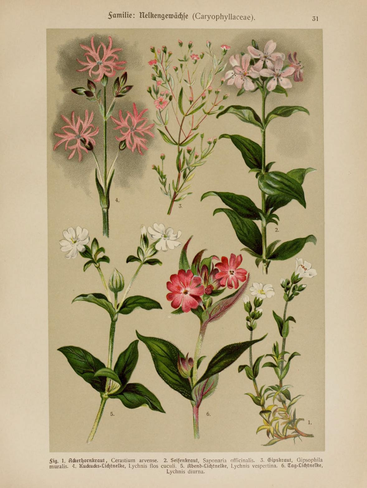 Samilic: tlelhcngcrDÖc^fc (Caryophyllaceae). 31 %$ i) 5ig. 1. fld»erl)ornhraut , Cerastium arvense. 2. Seifenhraut, Saponaria officinalis. 3. (Bipshraut, Gipsophila muralis. 4. Ku(feu(hs=£td)tnelhc, Lychnis flos cuculi. 5. flfaenb=Ctd)tnethe, Lychnis vespcrtina. 6. Iag=£tditnelhc, Lychnis diurna.